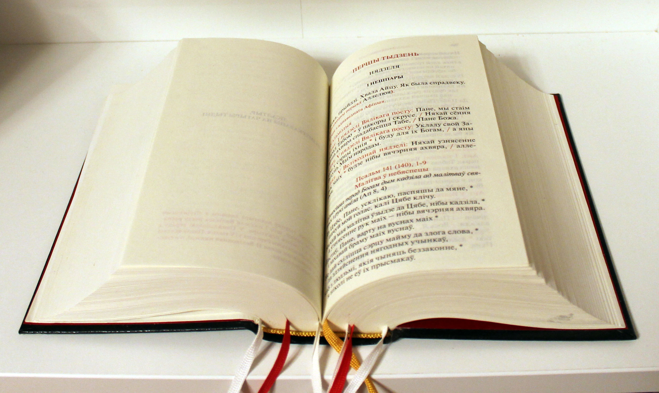 Liturgy of the Hours in Belarusian